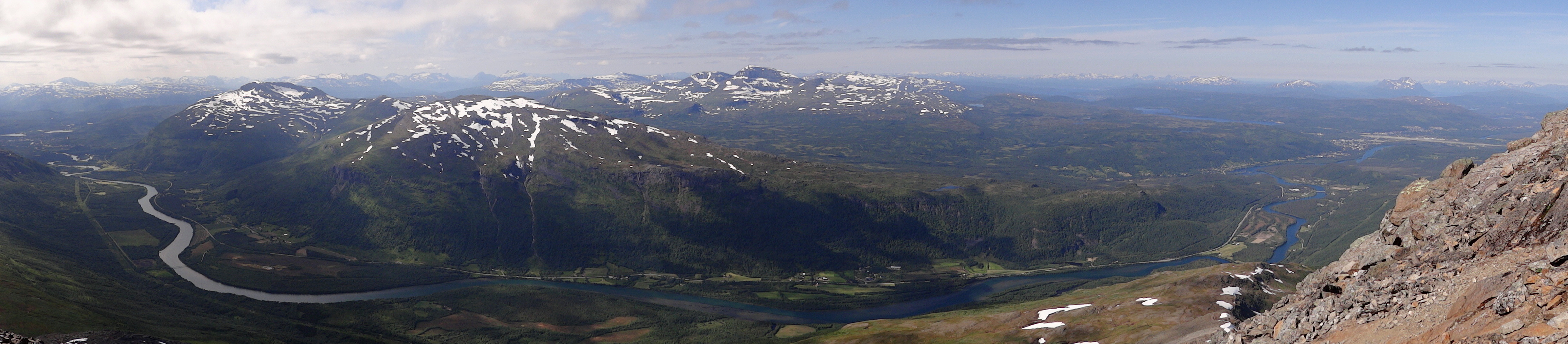 Barduelva from Setermoen in the east to Andselv in the west.